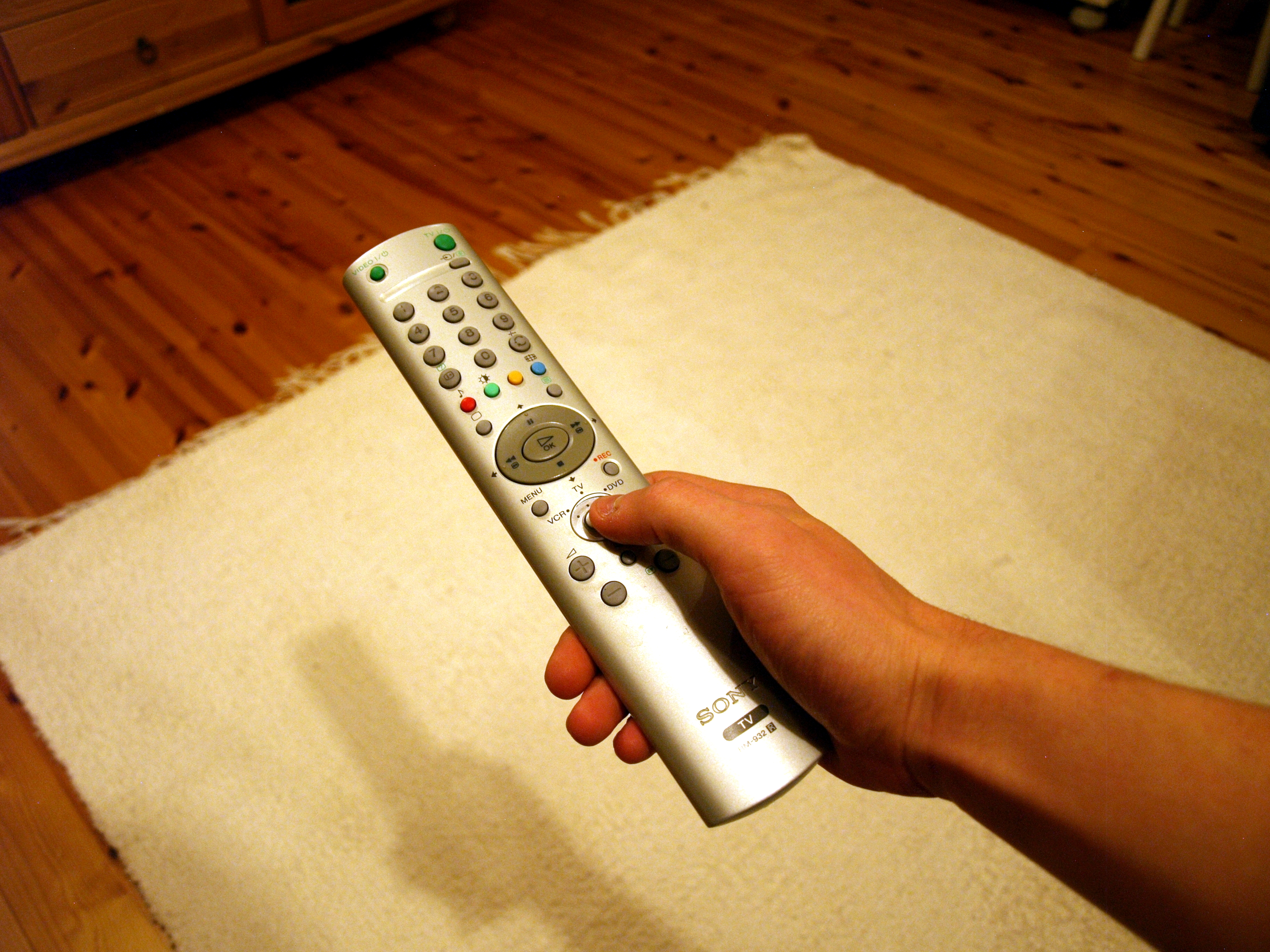 TV remote control in hand.